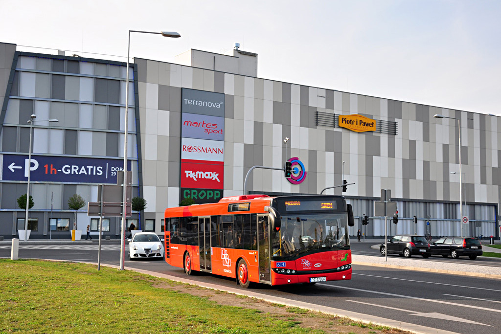 A fine photograph